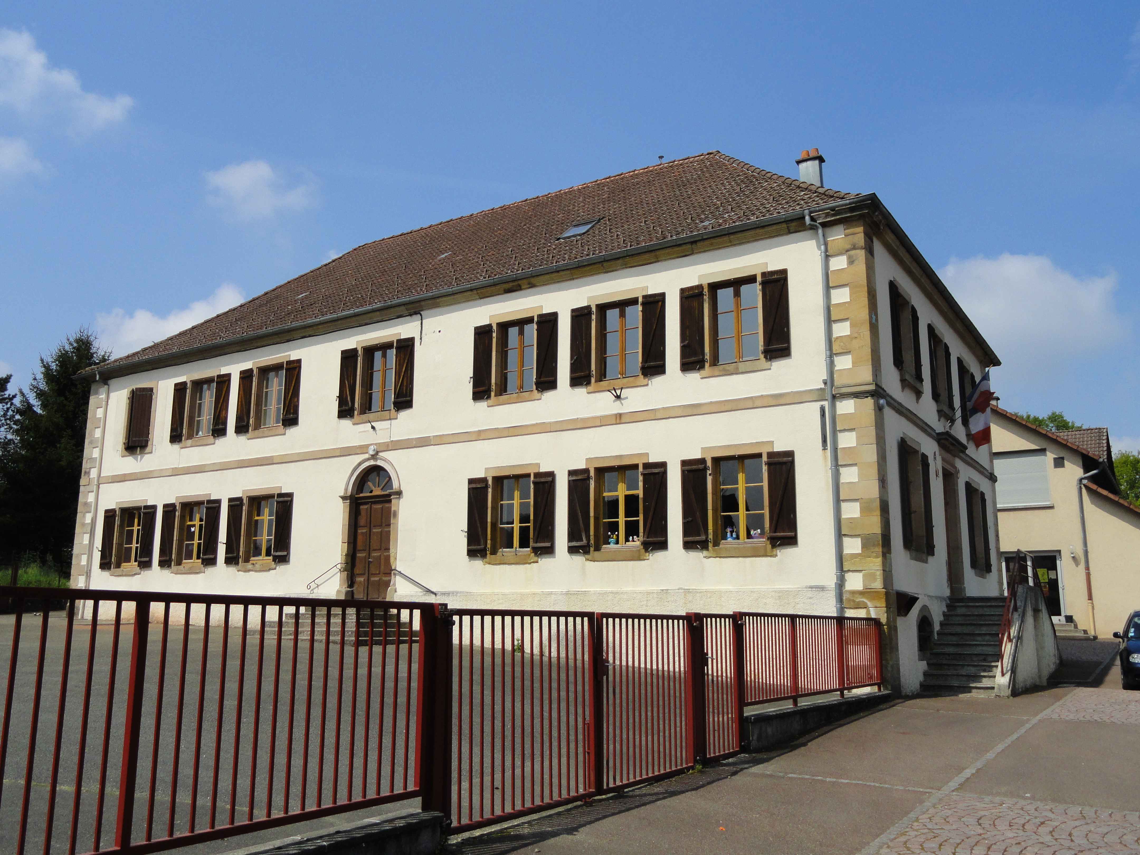 View of Frahier-et-Chatebier, Haute-Saône, France.